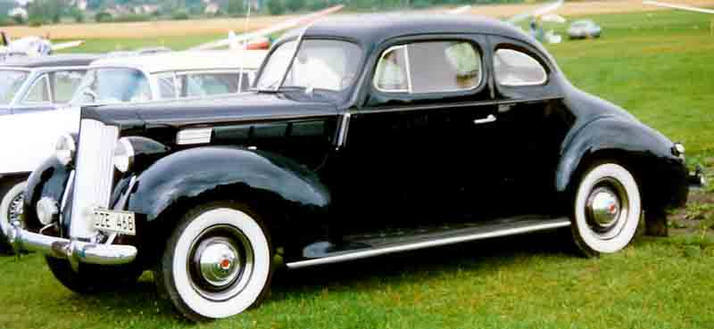 Packard Sixteenth Series Six 1600 1185 Club Coupé 1938